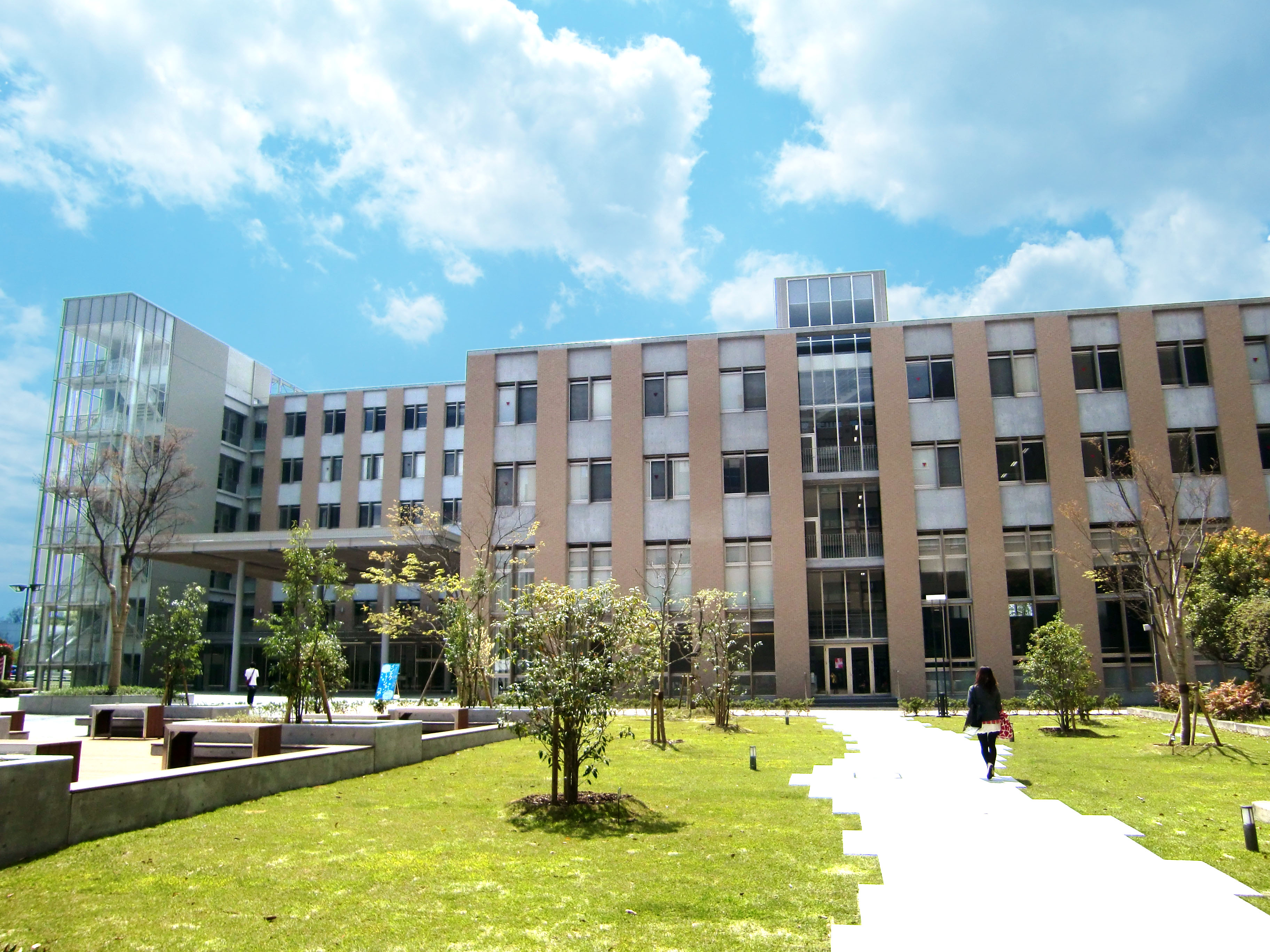 Rarcadia & Integration Core (Ritsumeikan University Biwako Kusatsu Campus), 1-1-1 Nojihigashi Kusatsu-City Shiga JAPAN.